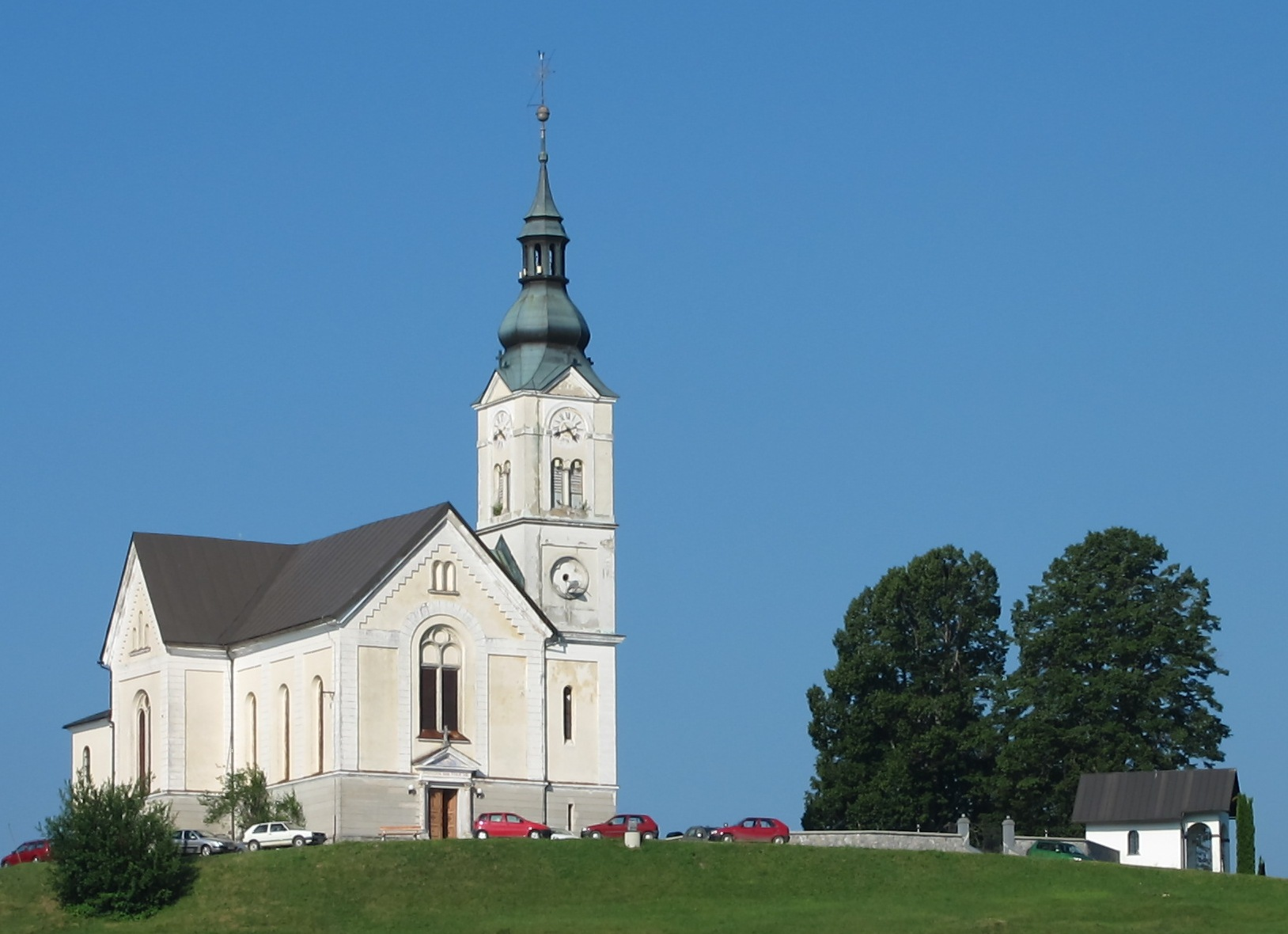 Church of Saint Leonard in Črni Vrh, Municipality of Dobrova–Polhov Gradec, Slovenia